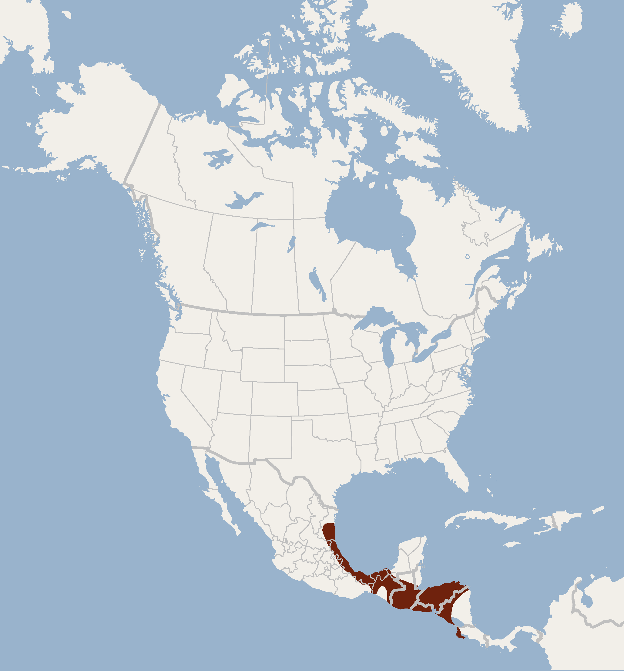 Geographical distribution of Rhogeessa tumida according to Vonhof, 2000